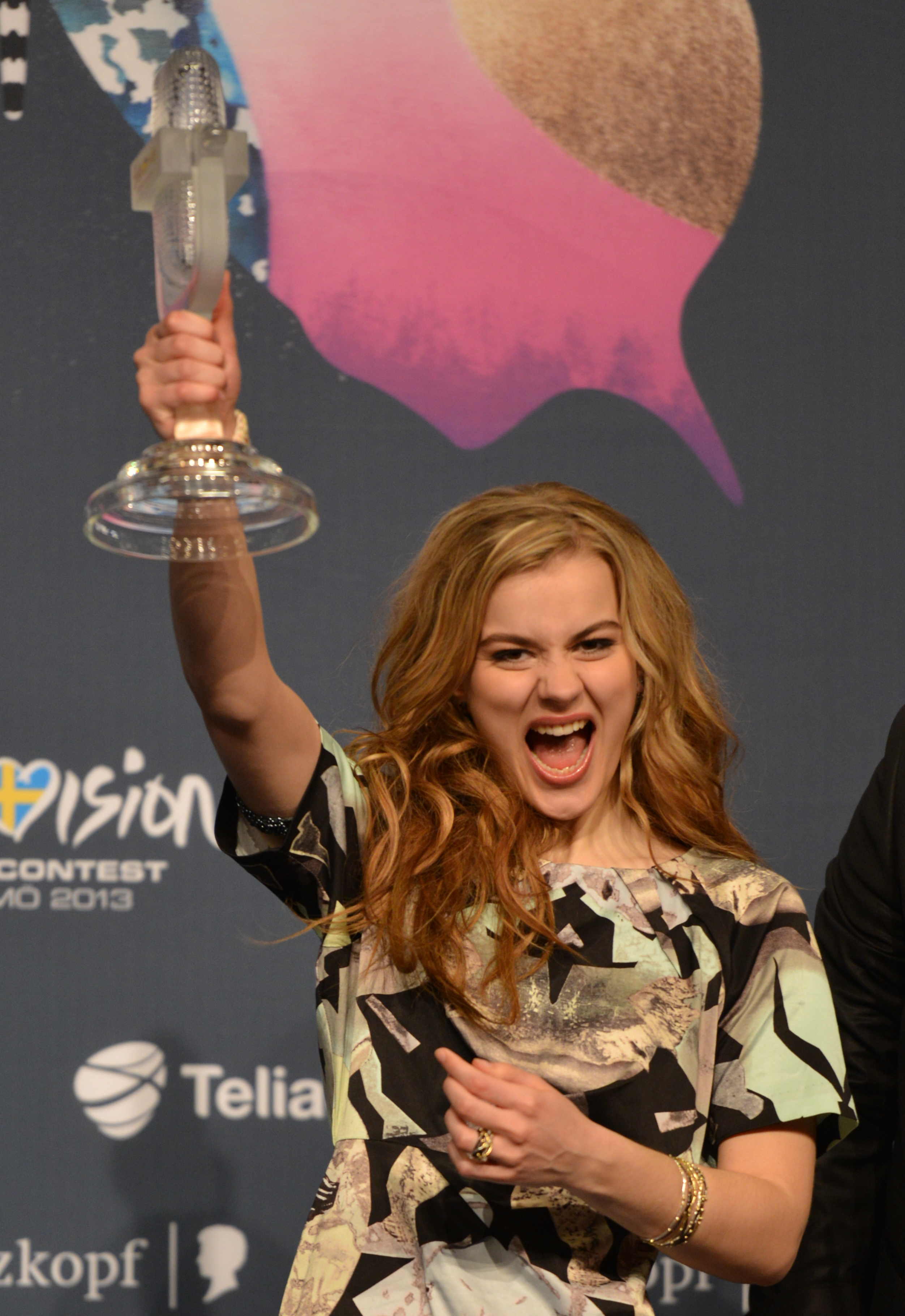 Emmelie de Forest at the winners press conference, right after winning the Eurovision Song Contest 2013 in Malmö. (Help translate this text)